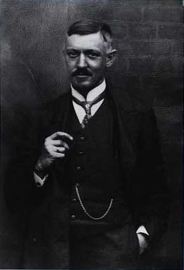 Danish engineer Ove Kruse Nobel (1868-1916)